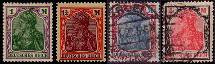 Germania postage stamps of German empire with high volumes, 1, 1¼, 2, 4 DM, 1920